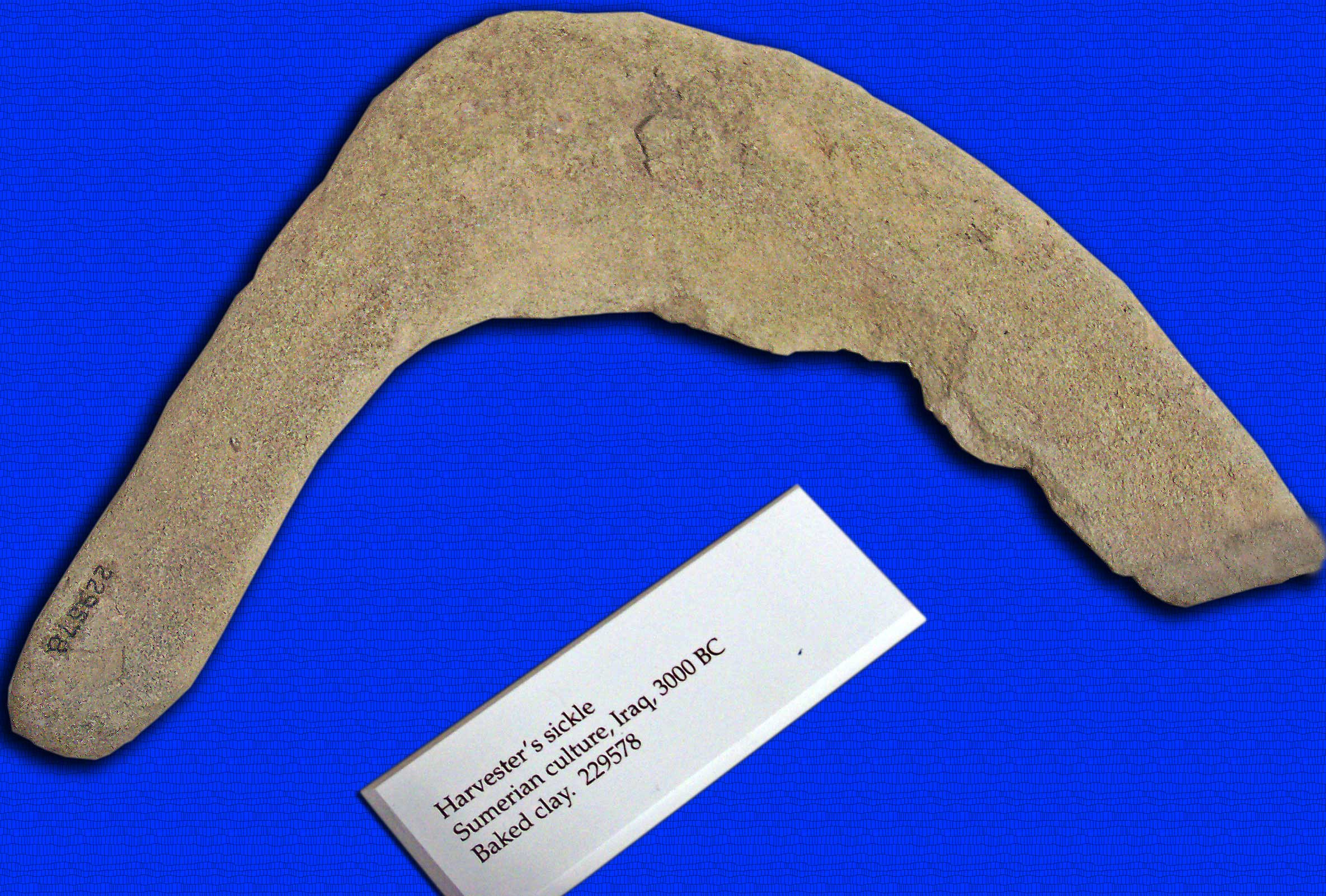 Sumerian Harvester's sickle, 3000 BCE. Baked clay. Field Museum